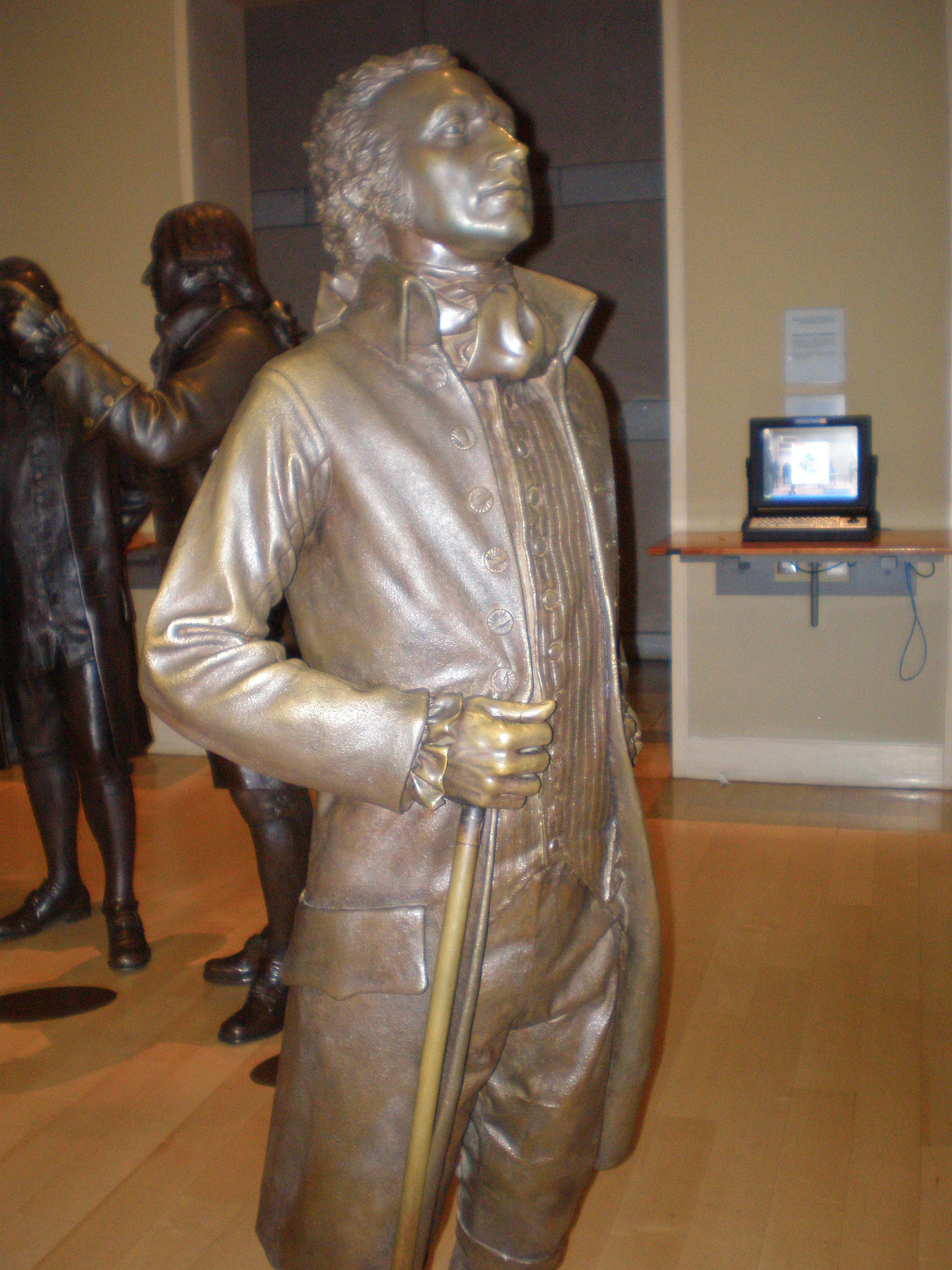 Statue of Alexander Hamilton at the National Constitution Center in Philadelphia, Pennsylvania (USA).